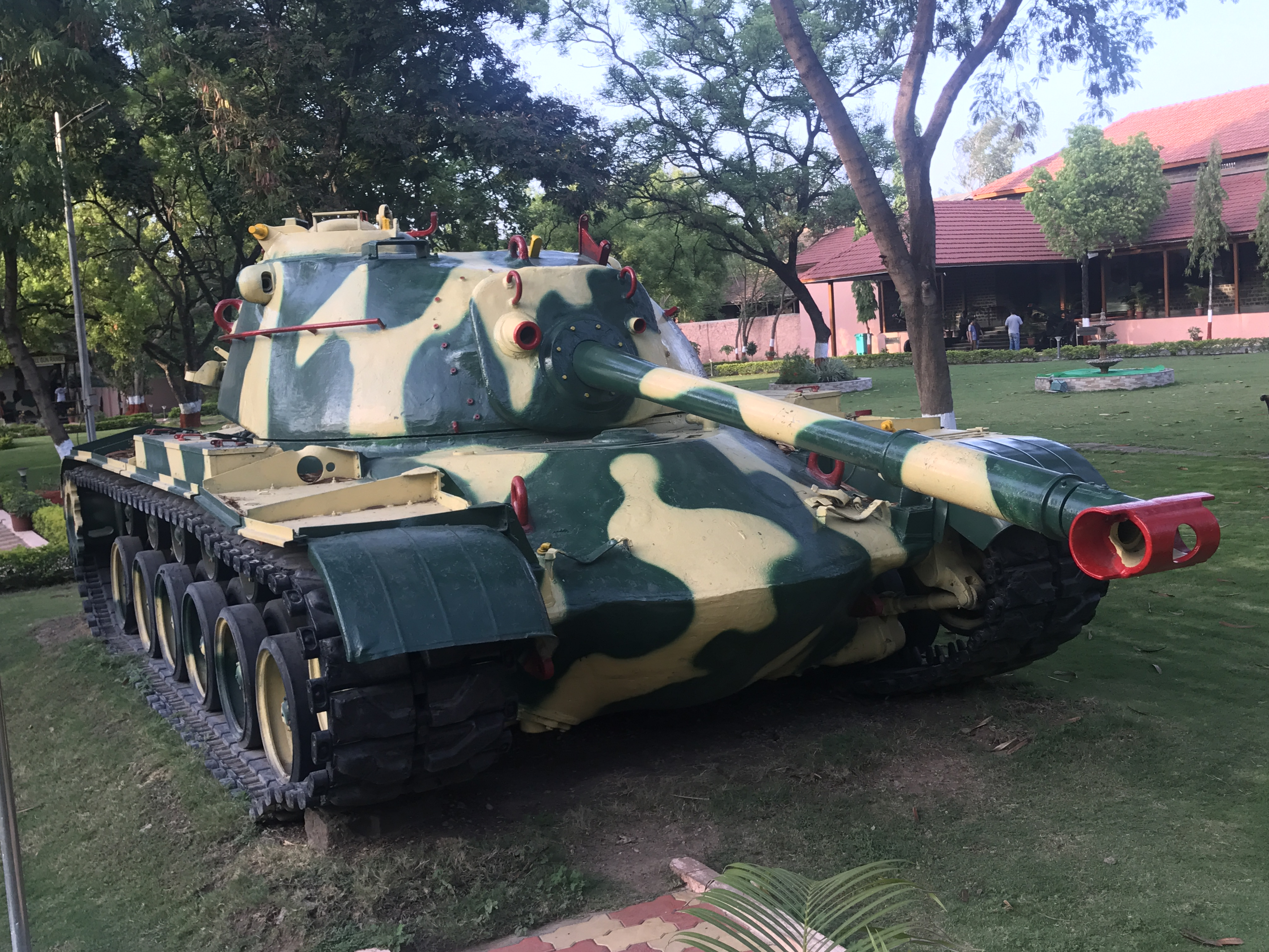 The famous Patton (M 47) Tank had been US Army's principal medium tank during the early Cold War era. The tank was named after General George S Patton Jr, Commander in Chief of the Third Army during World War II. Its main gun was the M 36 90 mm gun while the secondary armament consisted of two .30 Cal Browning Machine Guns and a .50 Cal Browning M2. During the Indo-Pakistan War of 1965, this tank saw fierce action in one of the largest tank battles at Aral Uttar where as many as 100 Patton tanks were destroyed or captured by the Indian Army. This battle also witnessed the outstanding act of gallantry by Havildar Abdul Hamill, who was decorated with the Parana Vir Chakra. India's highest gallantry award, for knocking out seven enemy tanks with a Recoilless gun. Patton tank were also used extensively by Pakistan Army in Kutch Sector during 1971 Indo-Pak war.